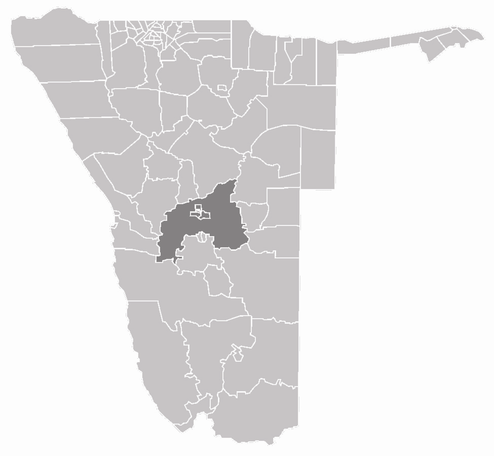 map of the Khomas region in Namibia